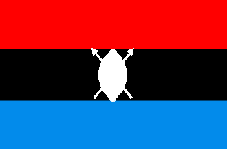 Flag of the provisional government of Nil (South Sudan)